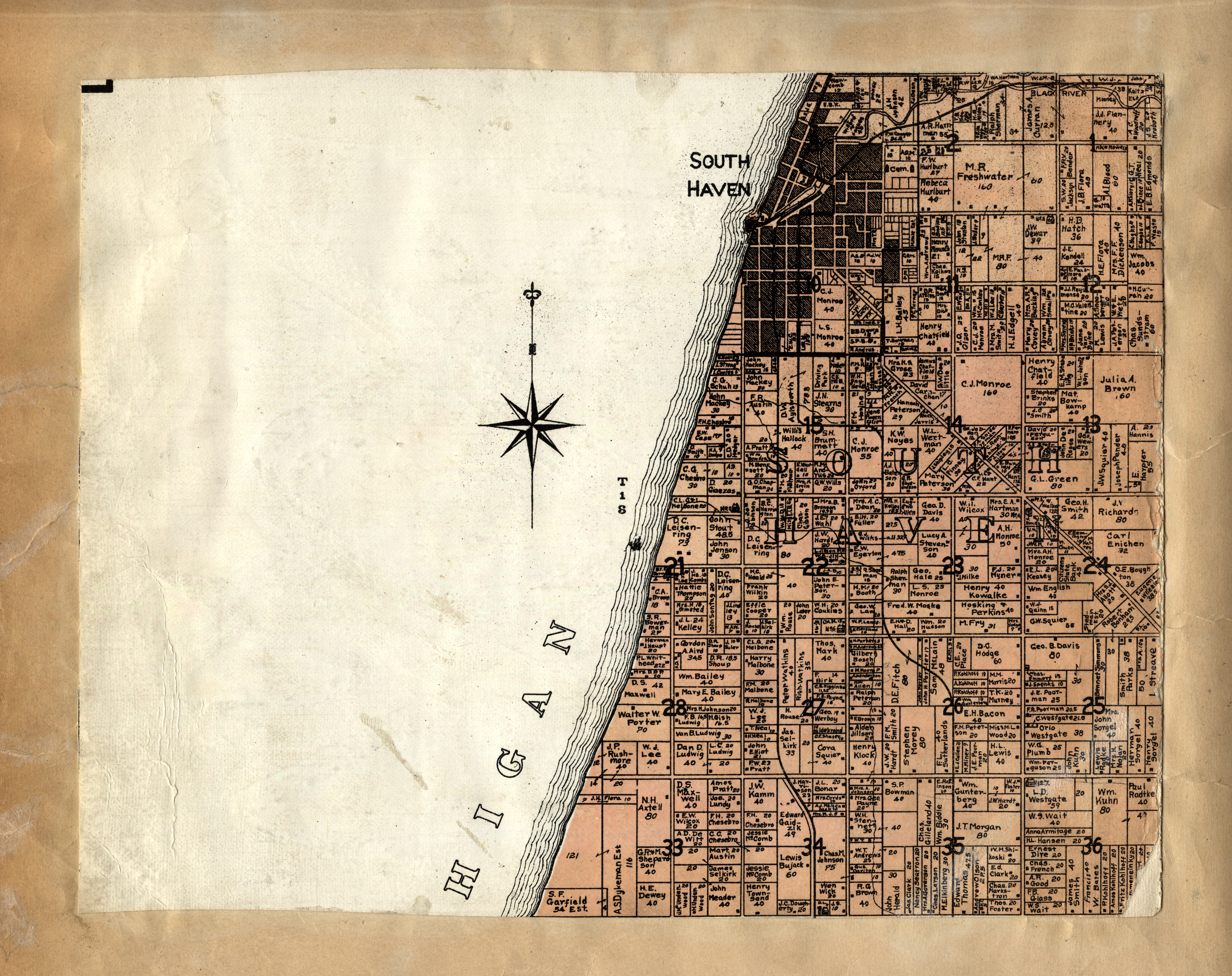 Digital scan of the South Haven Township portion of a larger 1906 map of Van Buren County, Michigan. The county map was cut into township-sized pieces, and the pieces were later found pasted into an 1895 atlas of Van Buren County, now in the collection of the Michigan State University Map Library. Each township map cut from the 1906 county map was pasted onto a blank page opposite the map of the corresponding township in the 1895 county atlas. Shows parcel boundaries and names of property owners, Public Land Survey System township and section numbering, roads, railroads, residences, schools, churches, municipalities, and water features. Print version was cut from map: Orton, M. K. A farm map of Vanburen County, Michigan / compiled from official records and local inspection by W.H. Goss, County Surveyor ; drawn by M.K. Orton. Rockford, Ill. : W.W. Hixson, [1906]. MSU Libraries catalog record